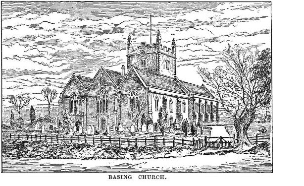 View of Basing Church